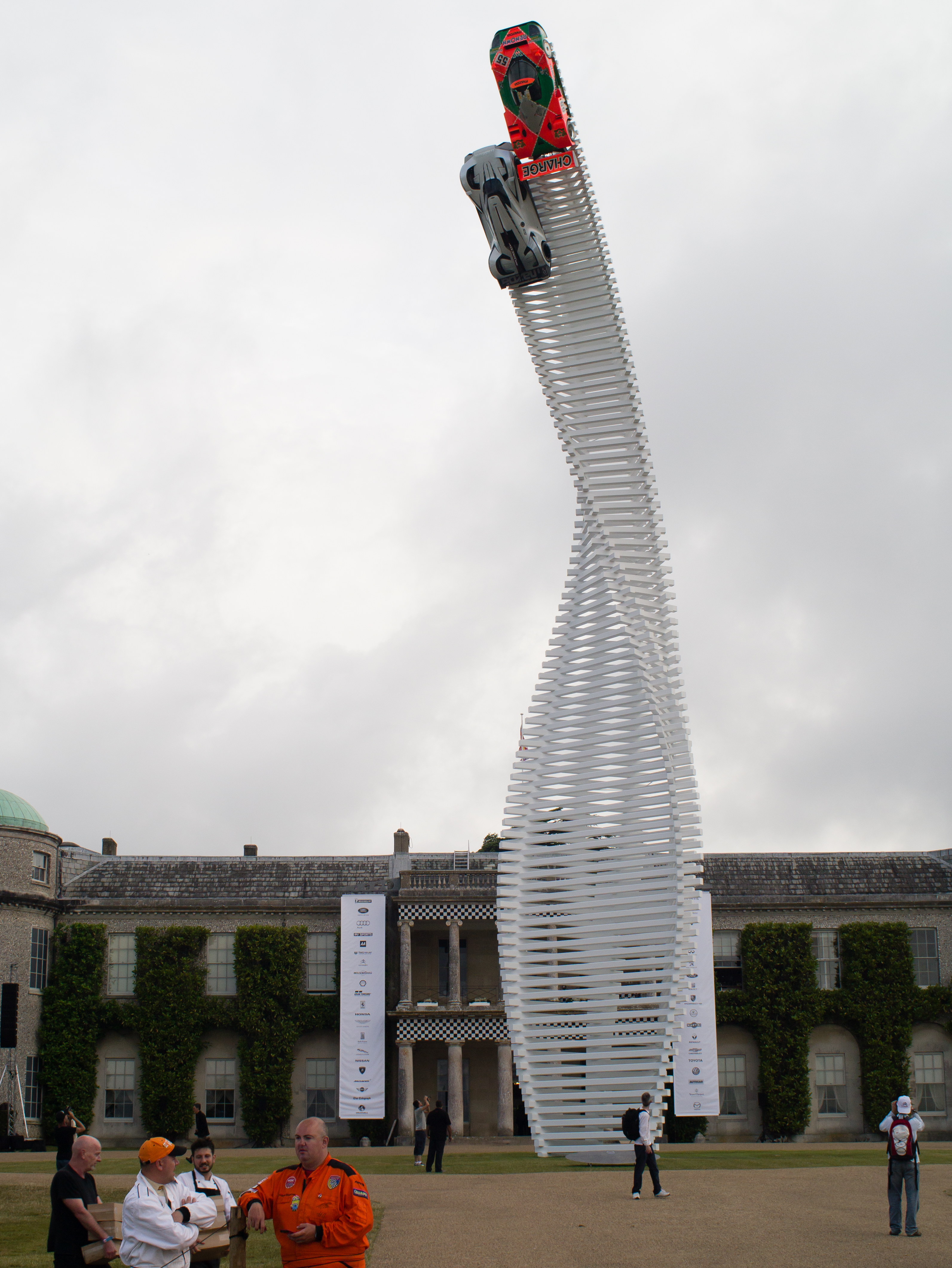 Mazda 787B and LM55 concept atop 40 metres of steel beams, created by Gerry Judah